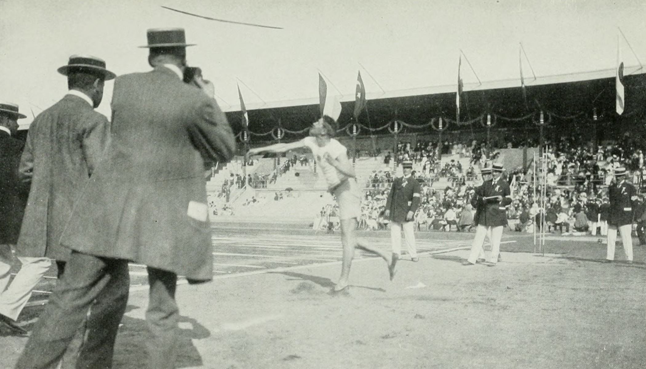 Eric Lemming during the javelin throw competition at the 1912 Summer Olympics